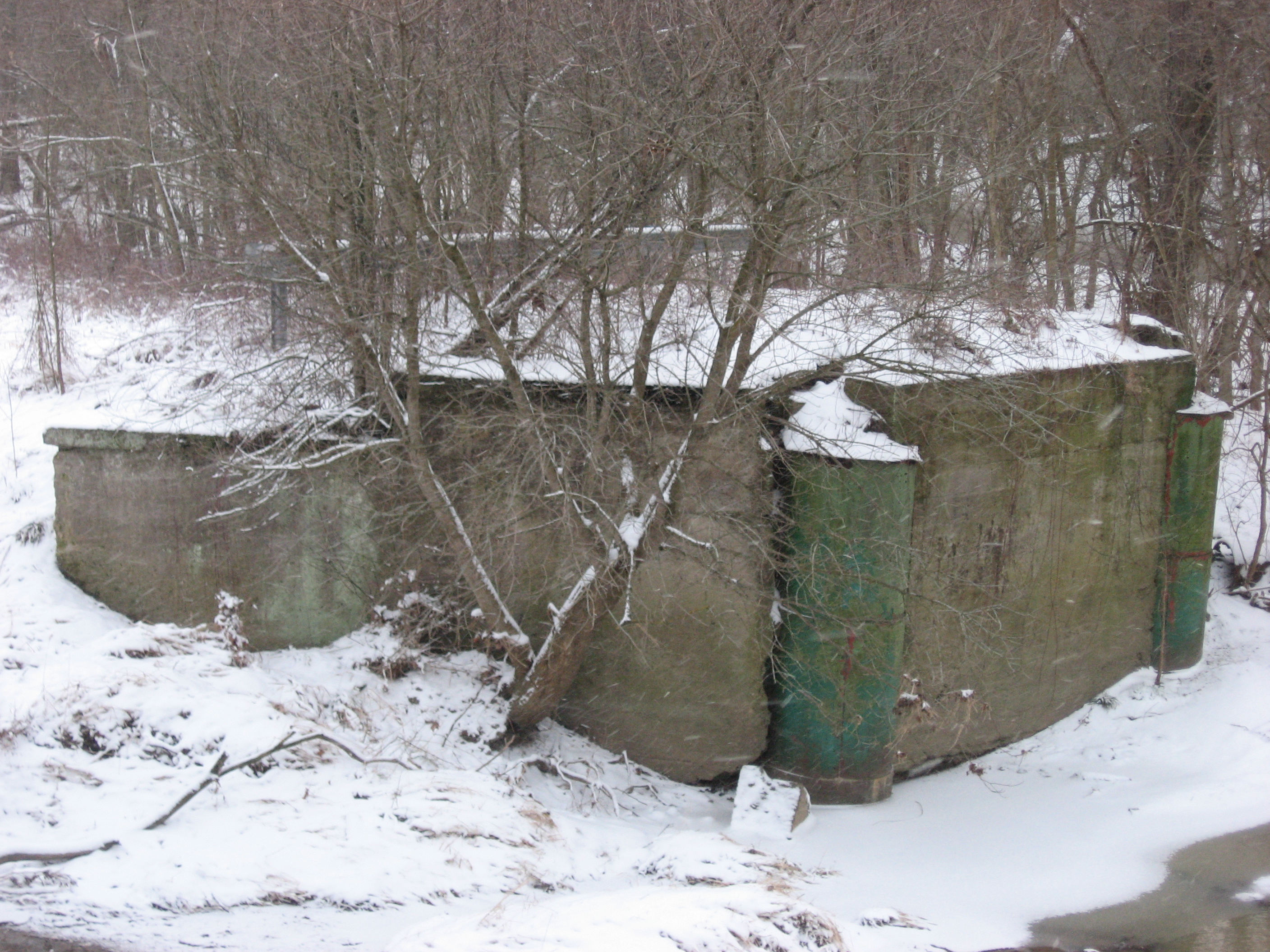 The southern abutment of the Paw Paw Creek Bridge No. 52, which formerly carried Paw Paw Pike over Paw Paw Creek east of Chili in Richland Township, Miami County, Indiana, United States. Built in 1874, it was listed on the National Register of Historic Places in 1983, but following its destruction, this designation was withdrawn.